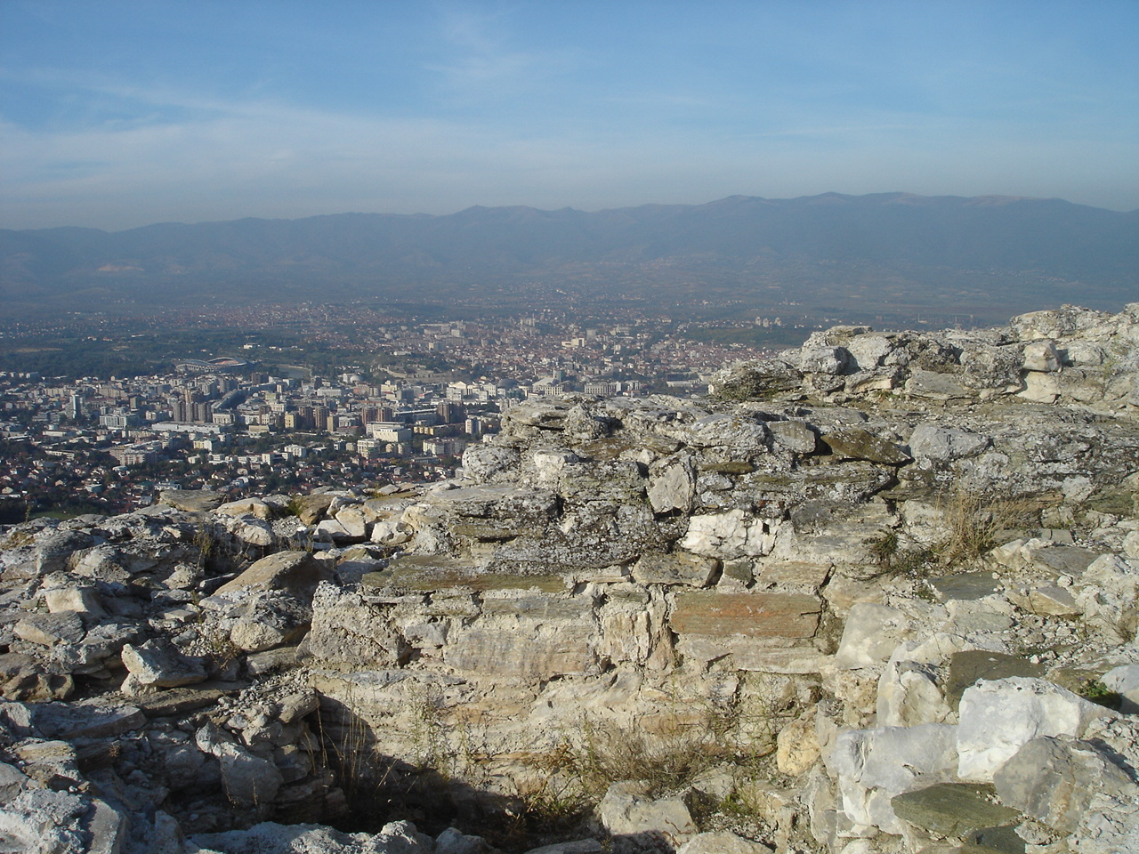 Remnants of the fortress Marko's Towers of Vodno mountain near Skopje, Macedonia